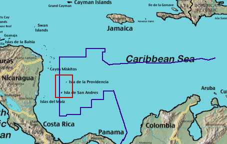 modified by user:f3rn4nd0 from